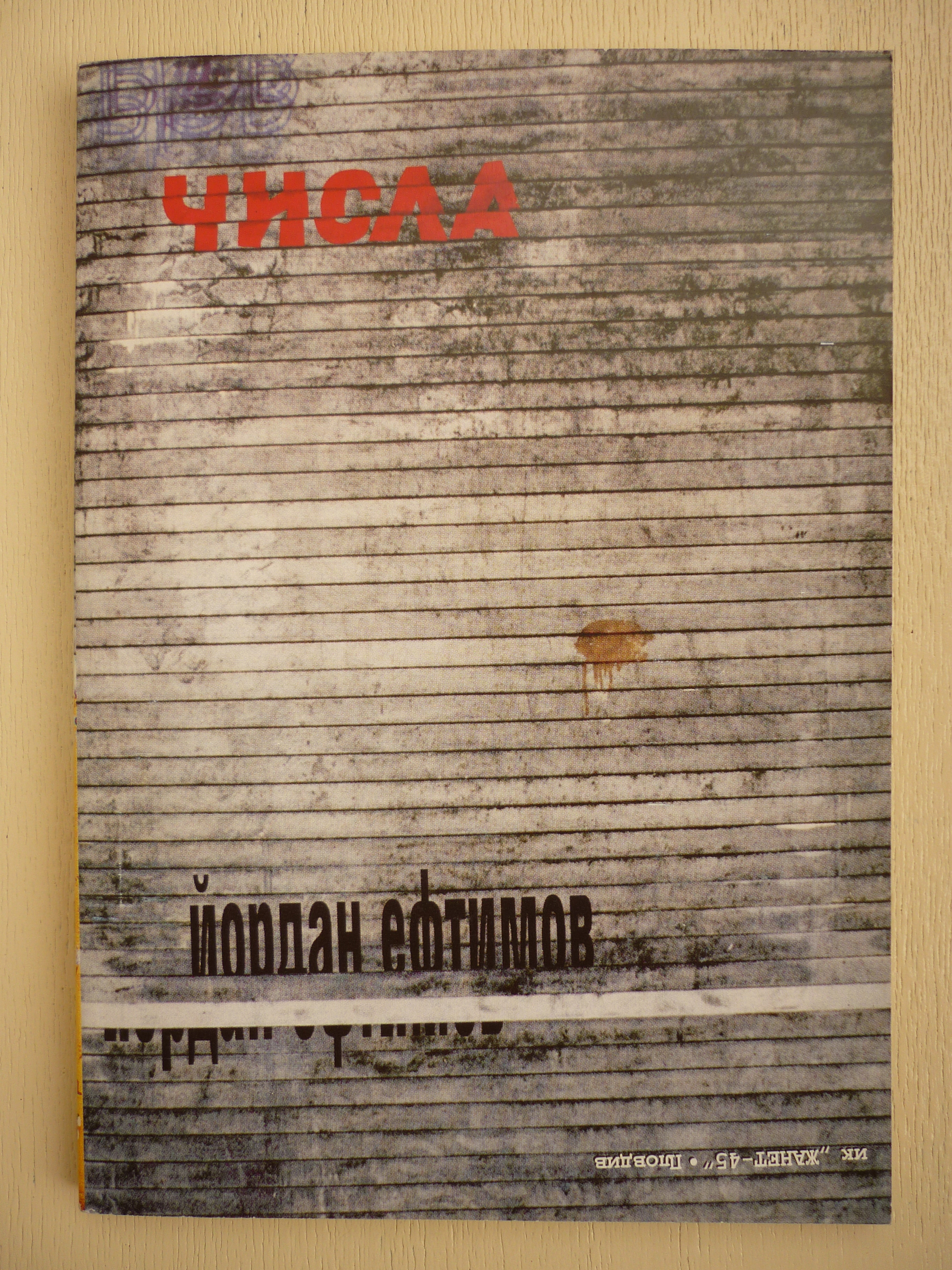 „Numbers/Africa“, first cover of the first Bulgarian edition, 1998